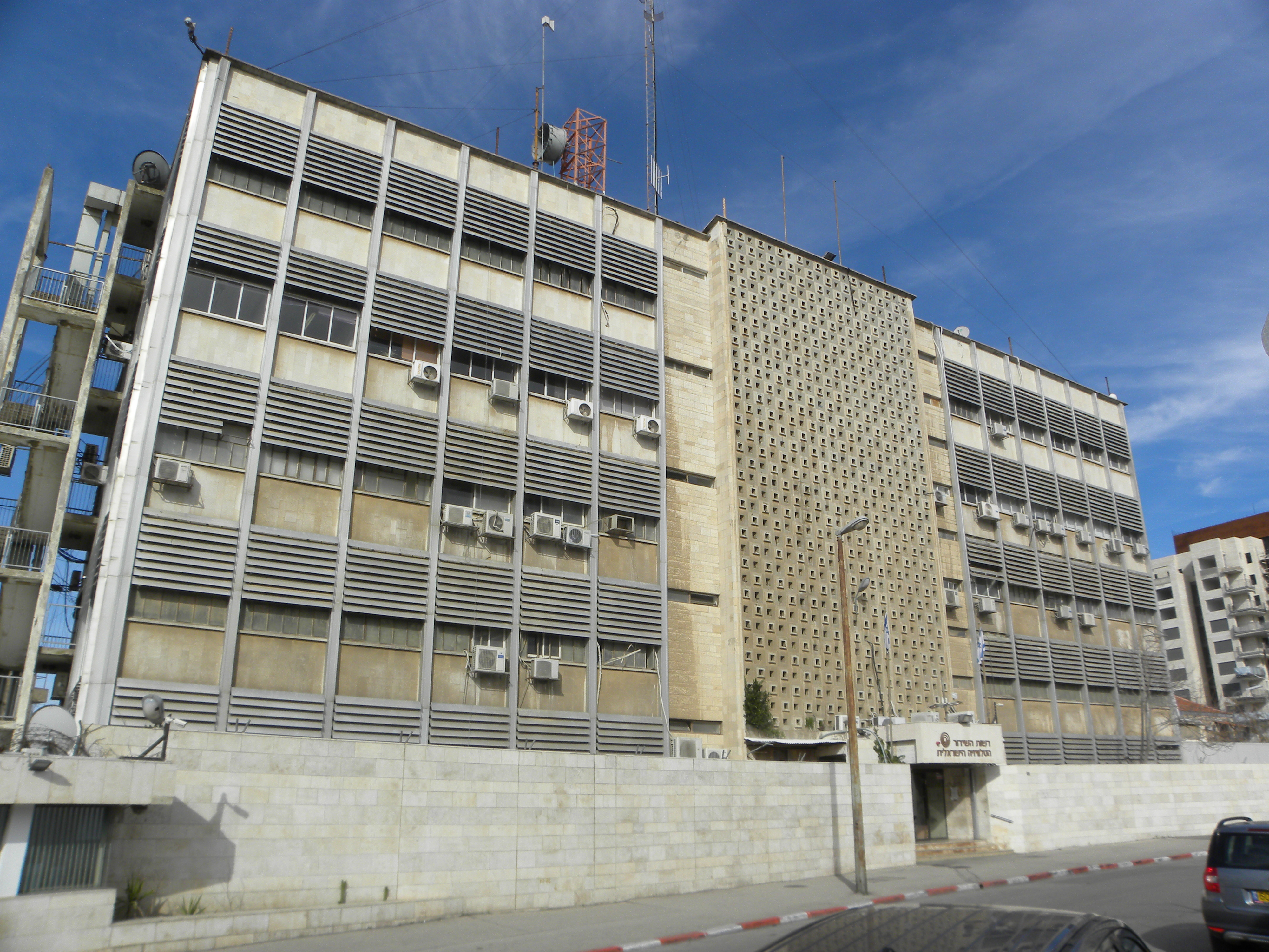 IBA's Israeli Television Building, in Romena, Jerusalem